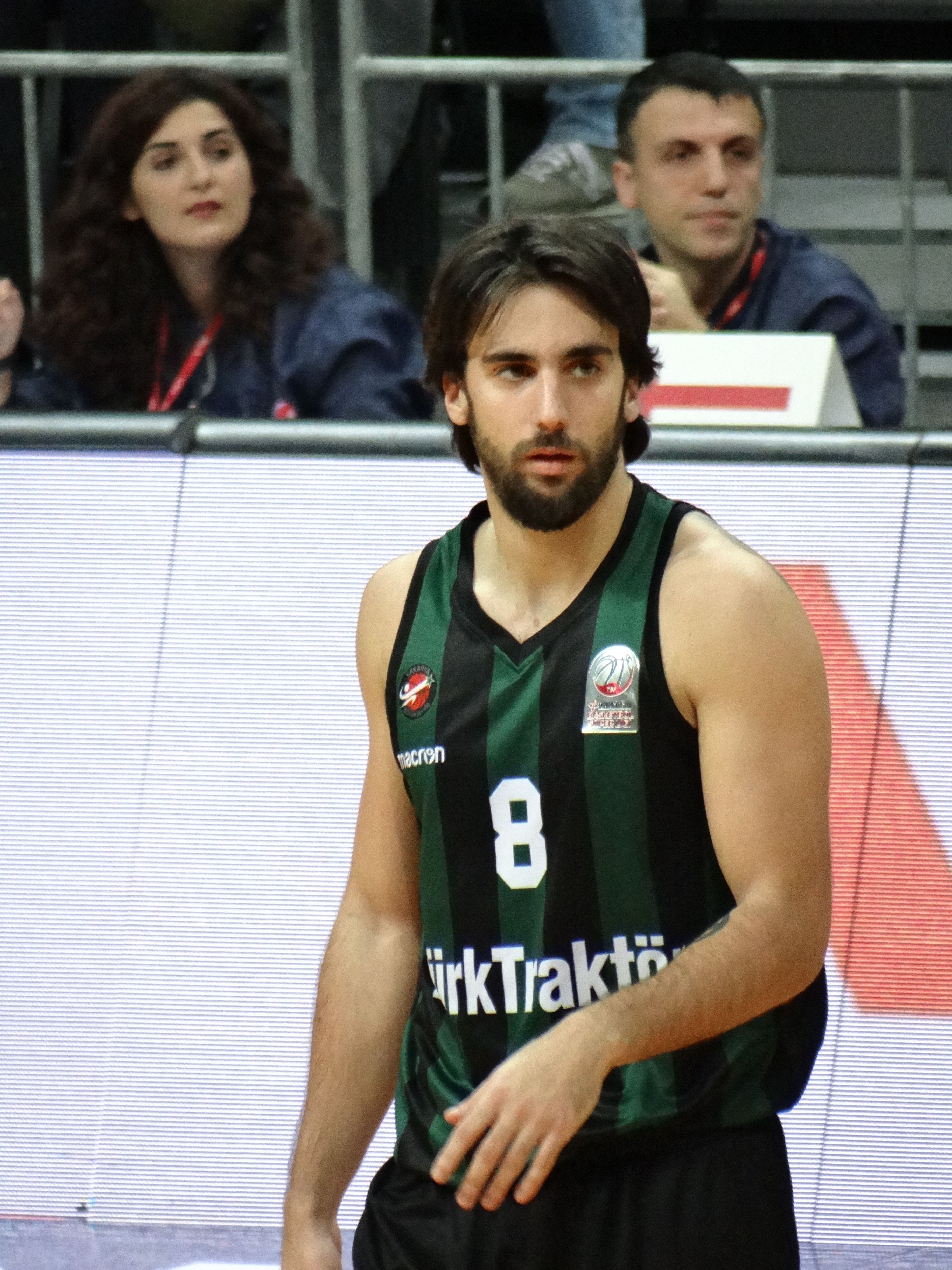 Can Korkmaz 8 Sakarya Büyükşehir Belediyespor 20180107